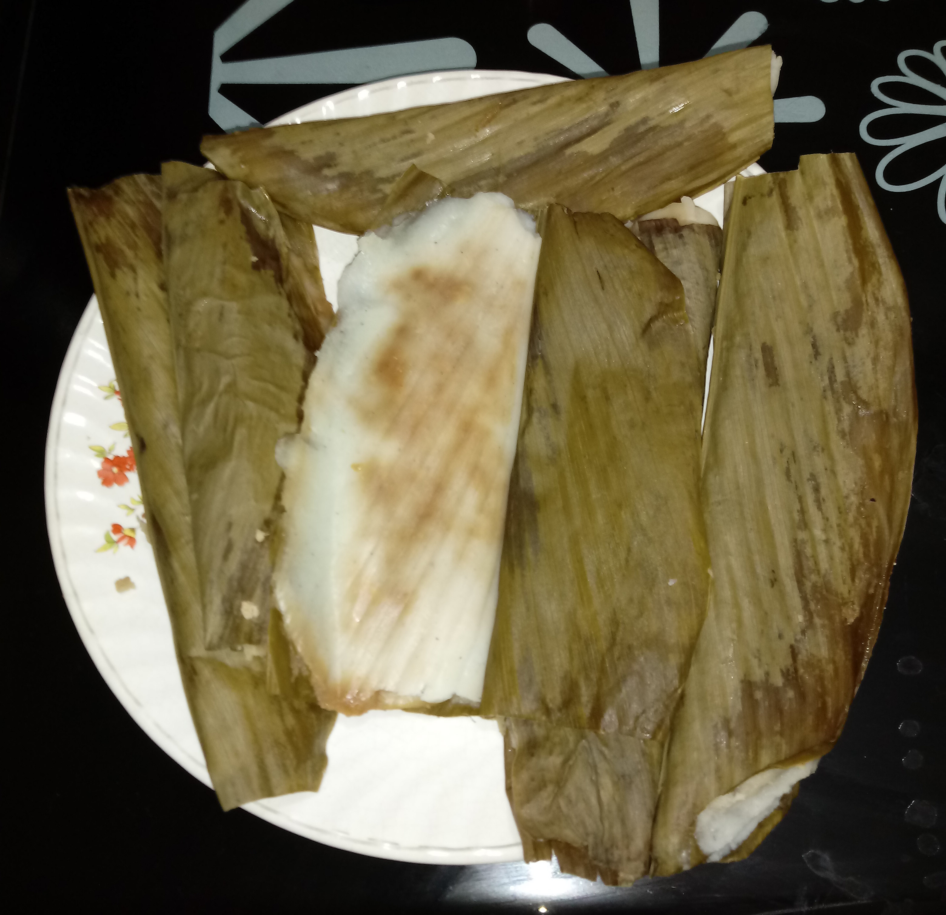 'Patoleo' (singular: 'Patoli') are sweet rice cakes steamed in turmeric leaves consisting of a filling of coconut and palm jaggery. These ones are prepared in Goan Catholic style.